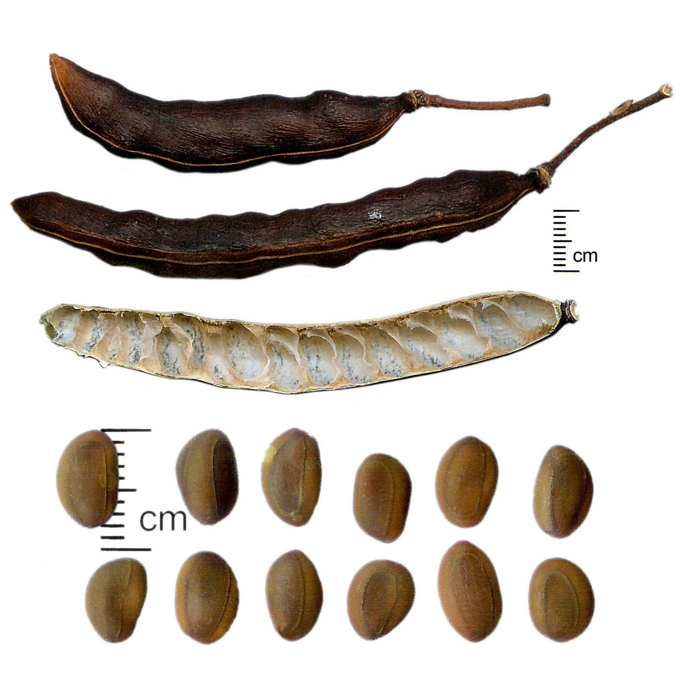 Vachellia farnesiana legume and seeds (Sharm el-Sheikh)